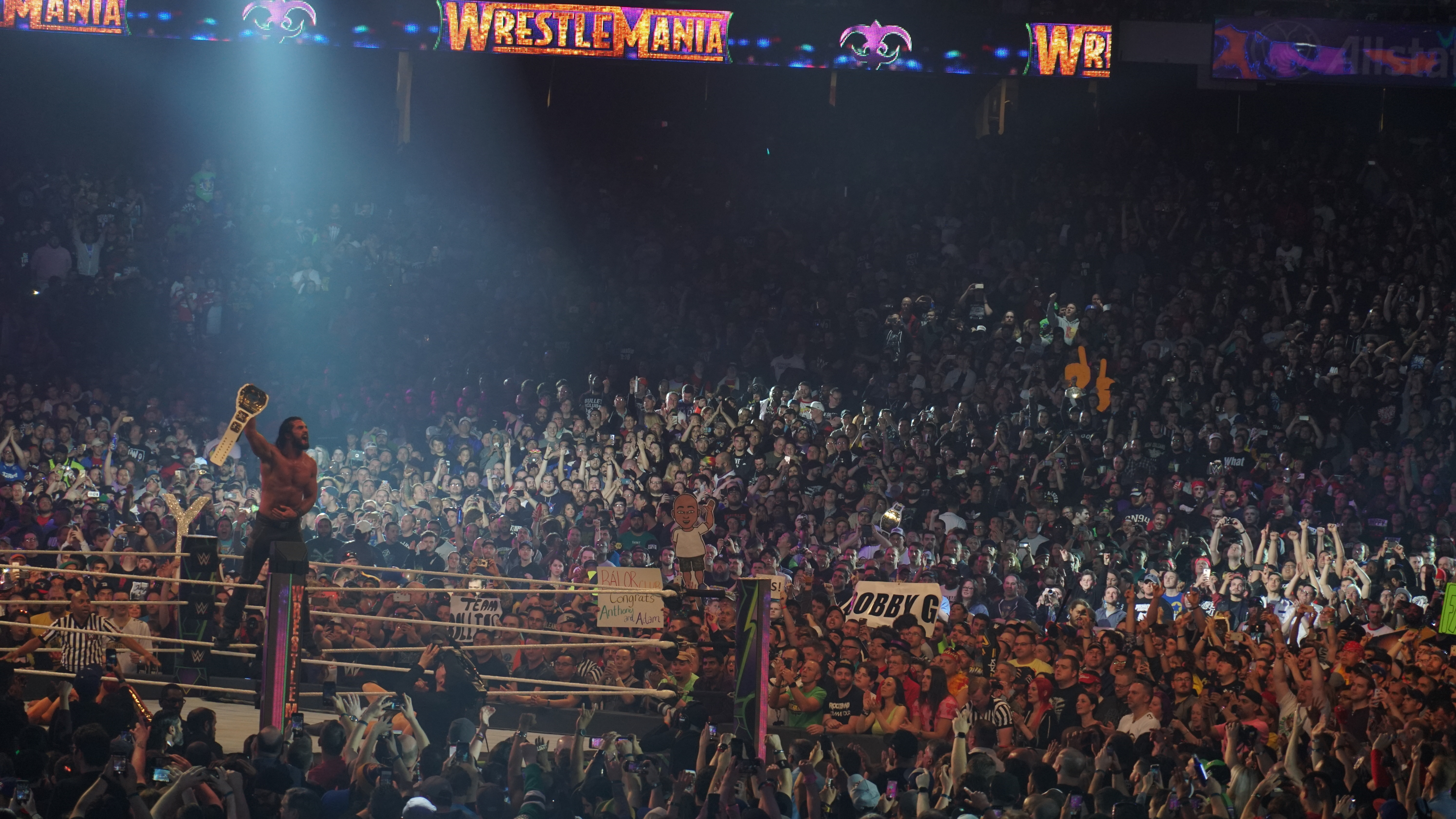 Seth Rollins after winning the WWE Intercontintal Championship at WrestleMania 34.